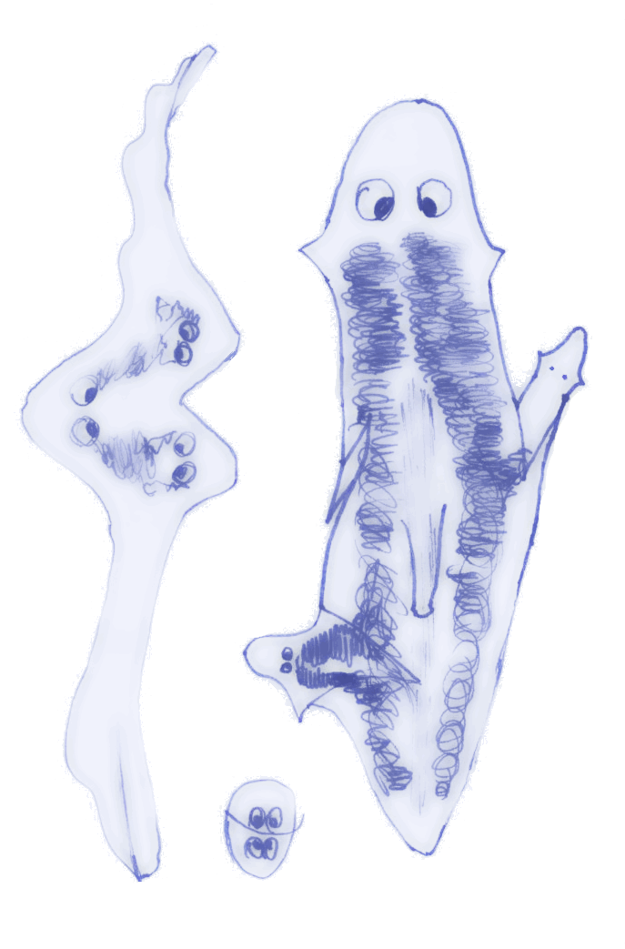 atypical regeneration